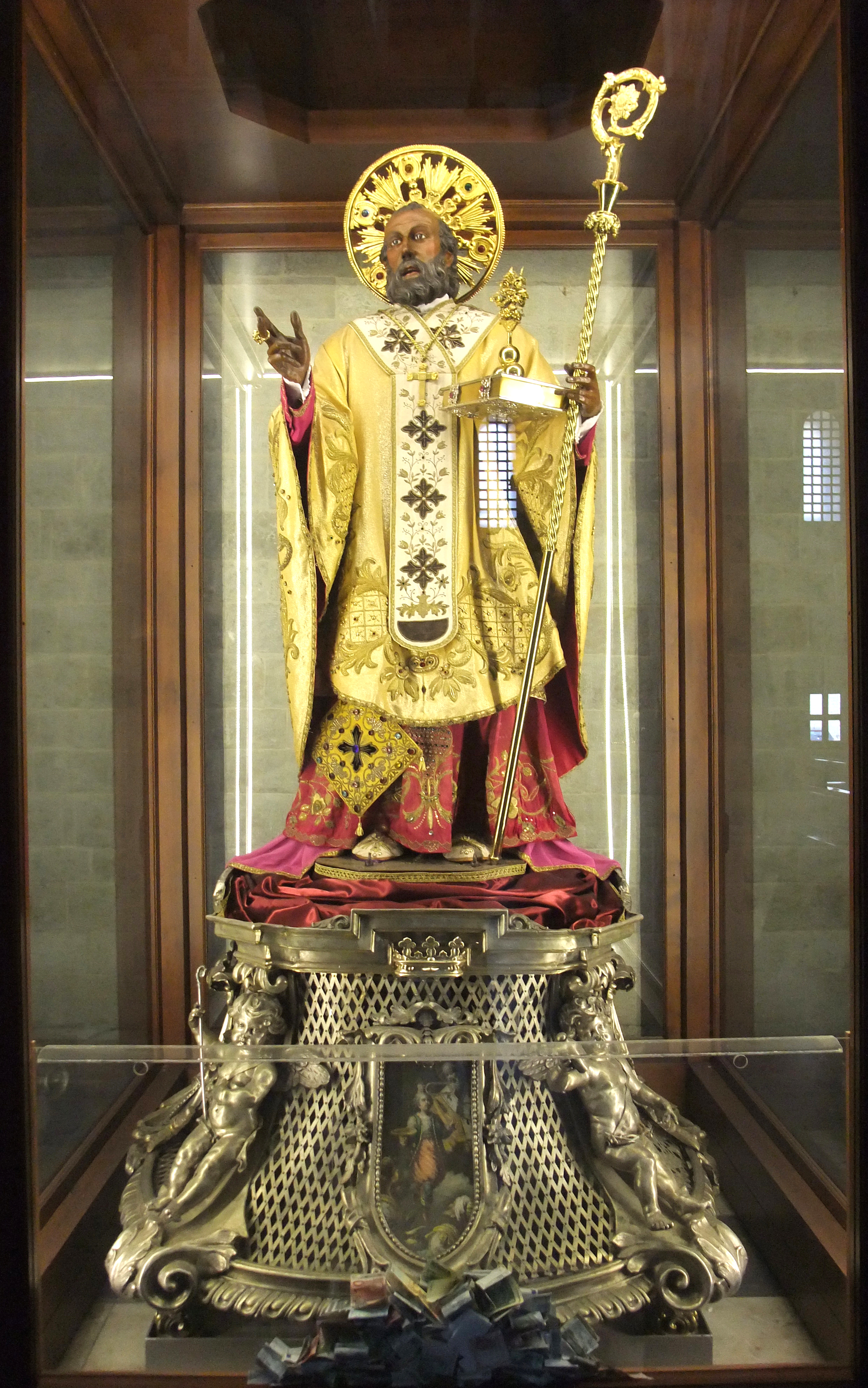 Interior of Basilica San Nicola in Bari in Apulia, southern Italy